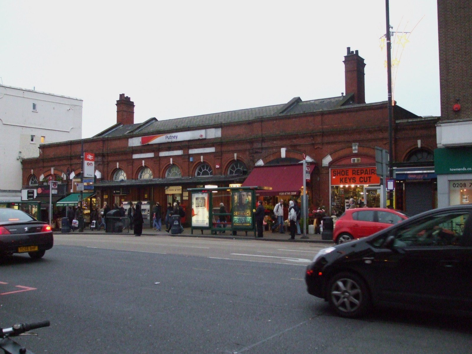 Putney station building